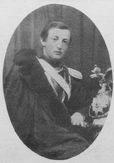 Pashkov, Vasili Alexandrovich (1831-1902)